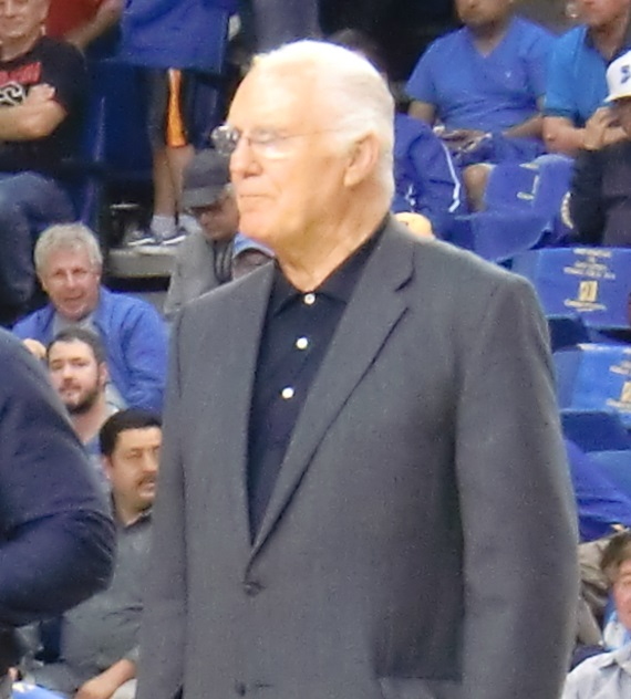 Former San Jose State men's basketball coach Stan Morrison appears at halftime of a game in 2016 in honor of the 1996 team that made the NCAA Tournament.